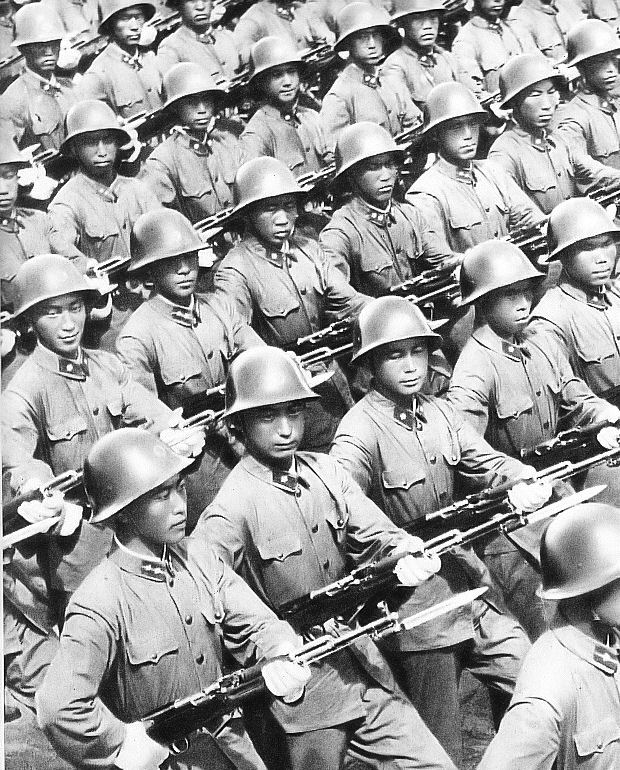 China 10th Anniversary Parade in Beijing